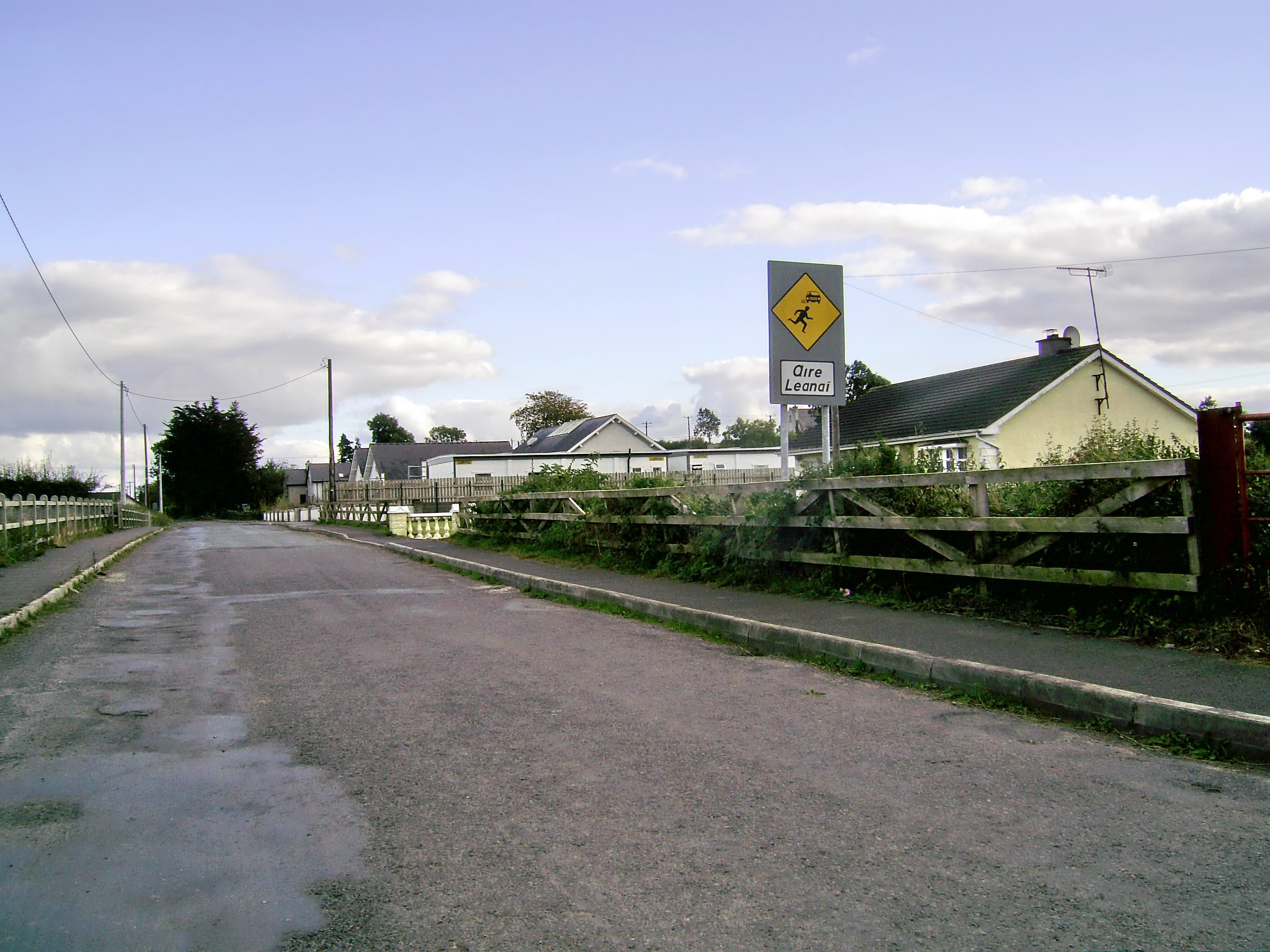 Aire_leanai_An scoil as Rath Cairn.jpg